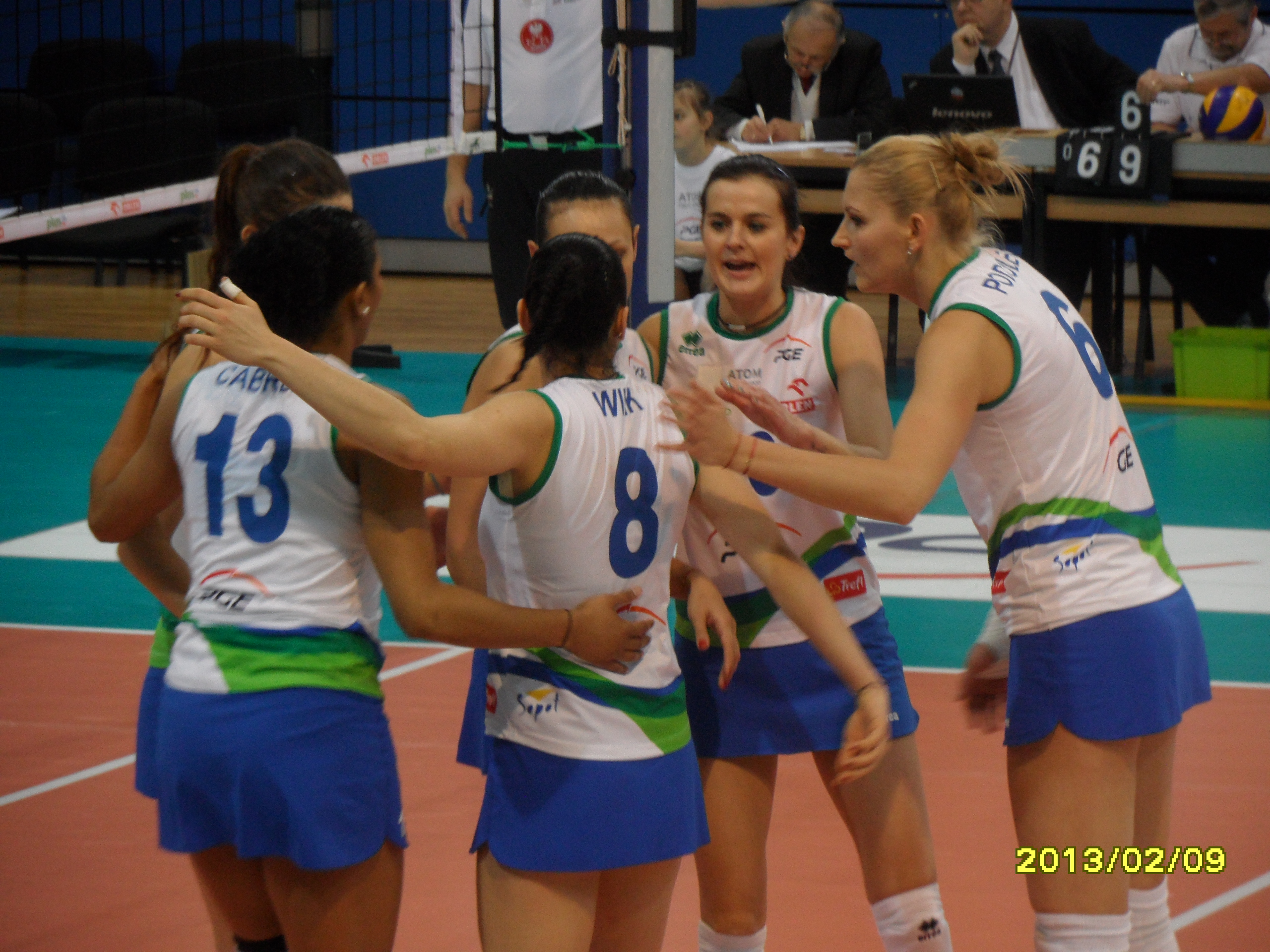 Joy after get a point of a Atom Trefl Sopot players